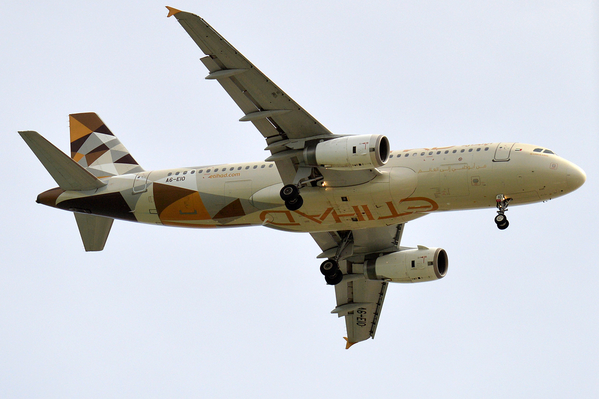 Etihad Airways, A6-EIO, Airbus A320-232